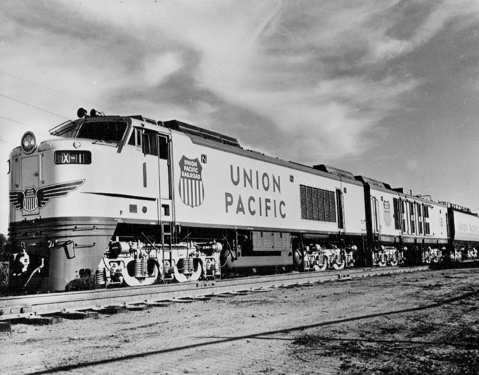 Photo of the first of Union Pacific's third generation GTEL locomotives.